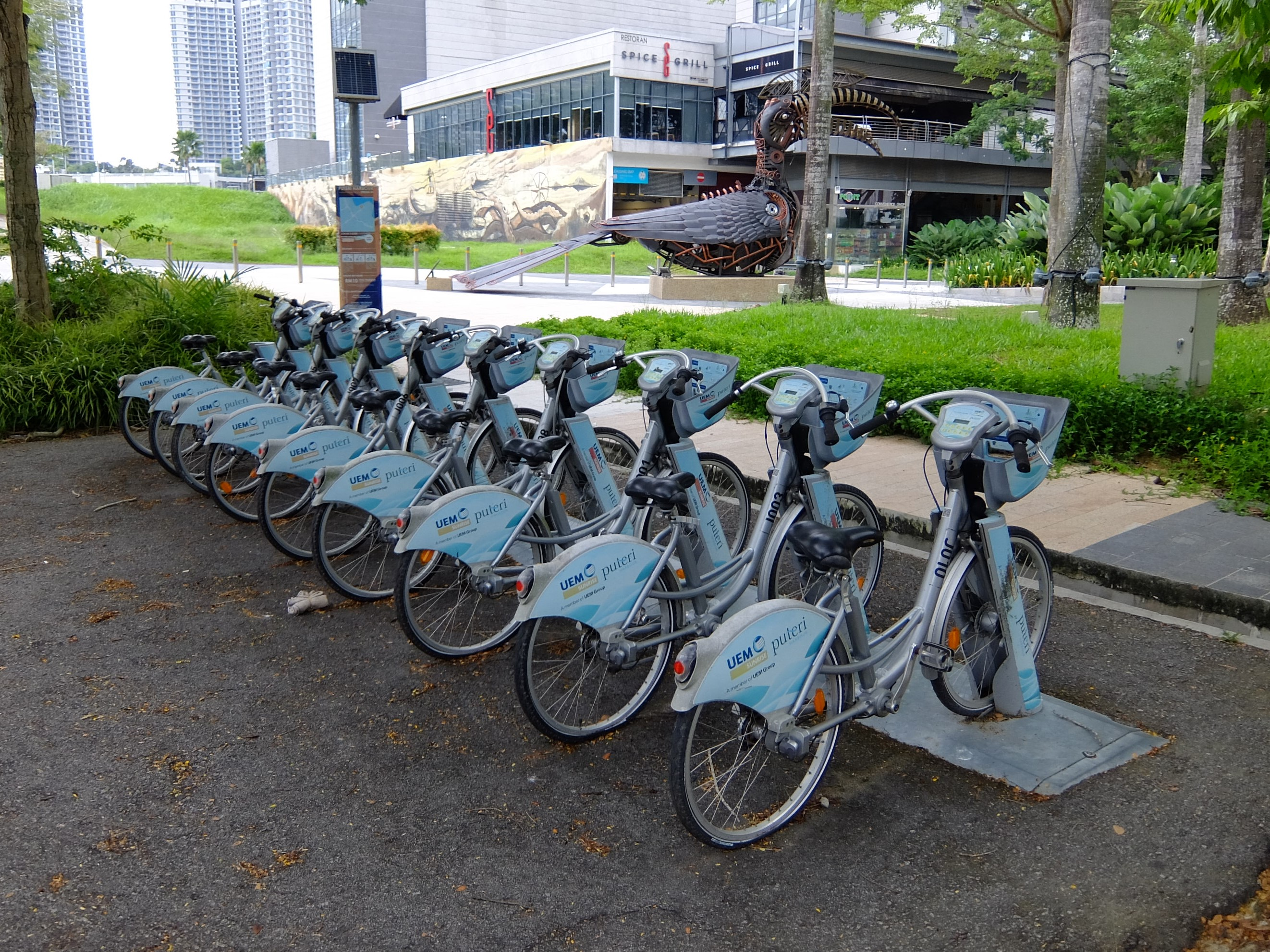 Puteri Harbour, Iskandar Puteri, Johor Bahru, Johor, Malaysia